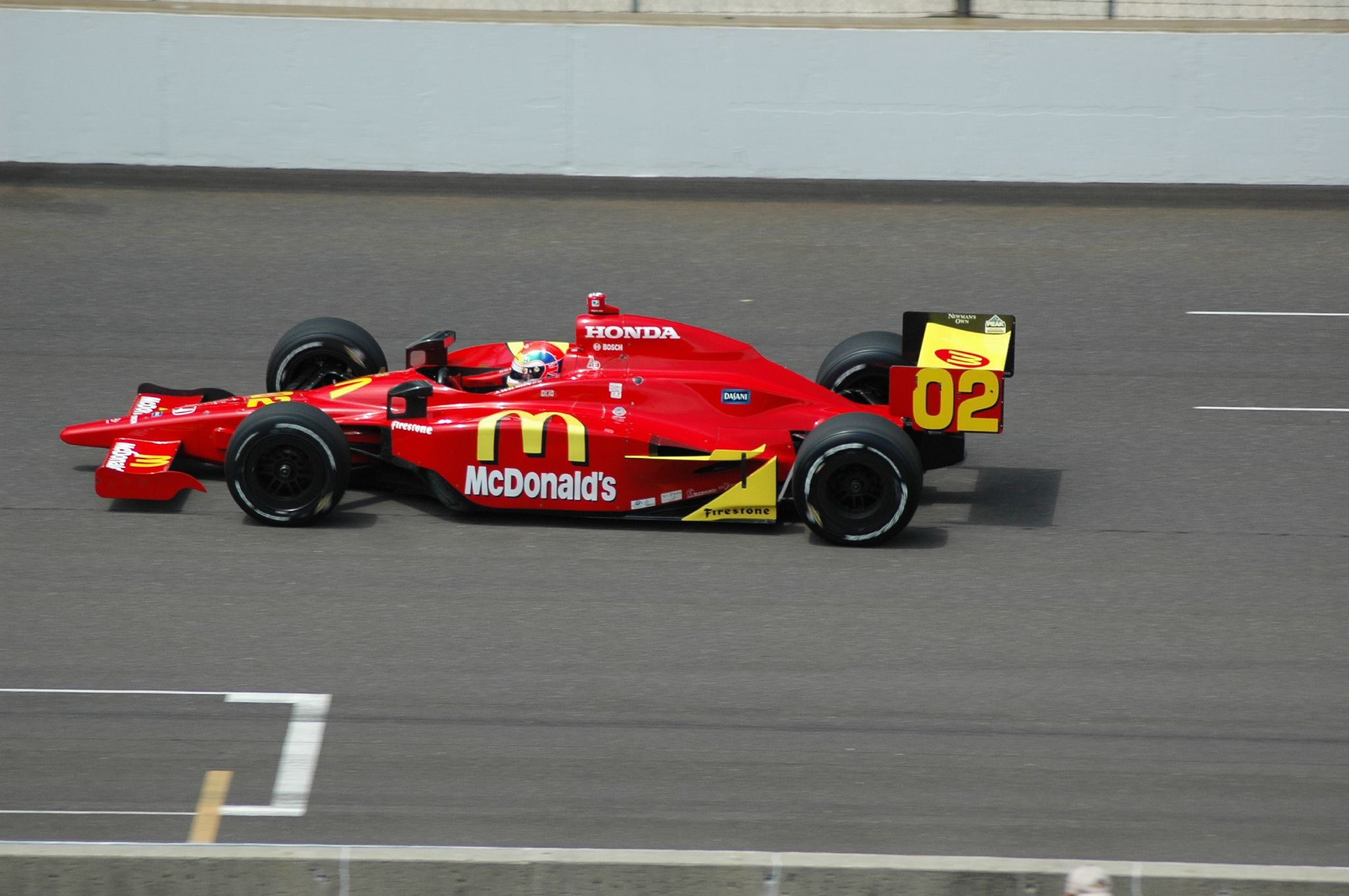 Justin Wilson at Indianapolis 500 practice.